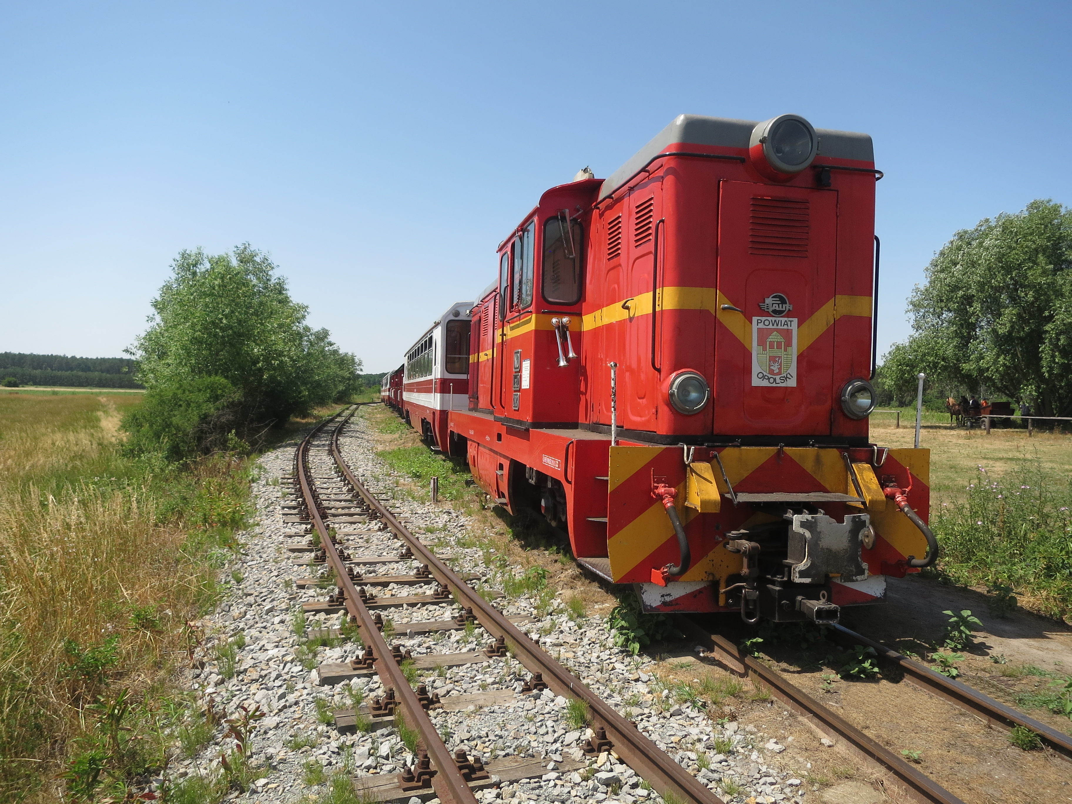 The historic narrow-gauge railway. In the foreground, locomotive type Lxd2 produced in Romania, 1968.